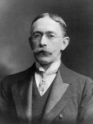 Sir Eldon Gorst (1861–1911), former British Agent and Consul-General in Egypt.